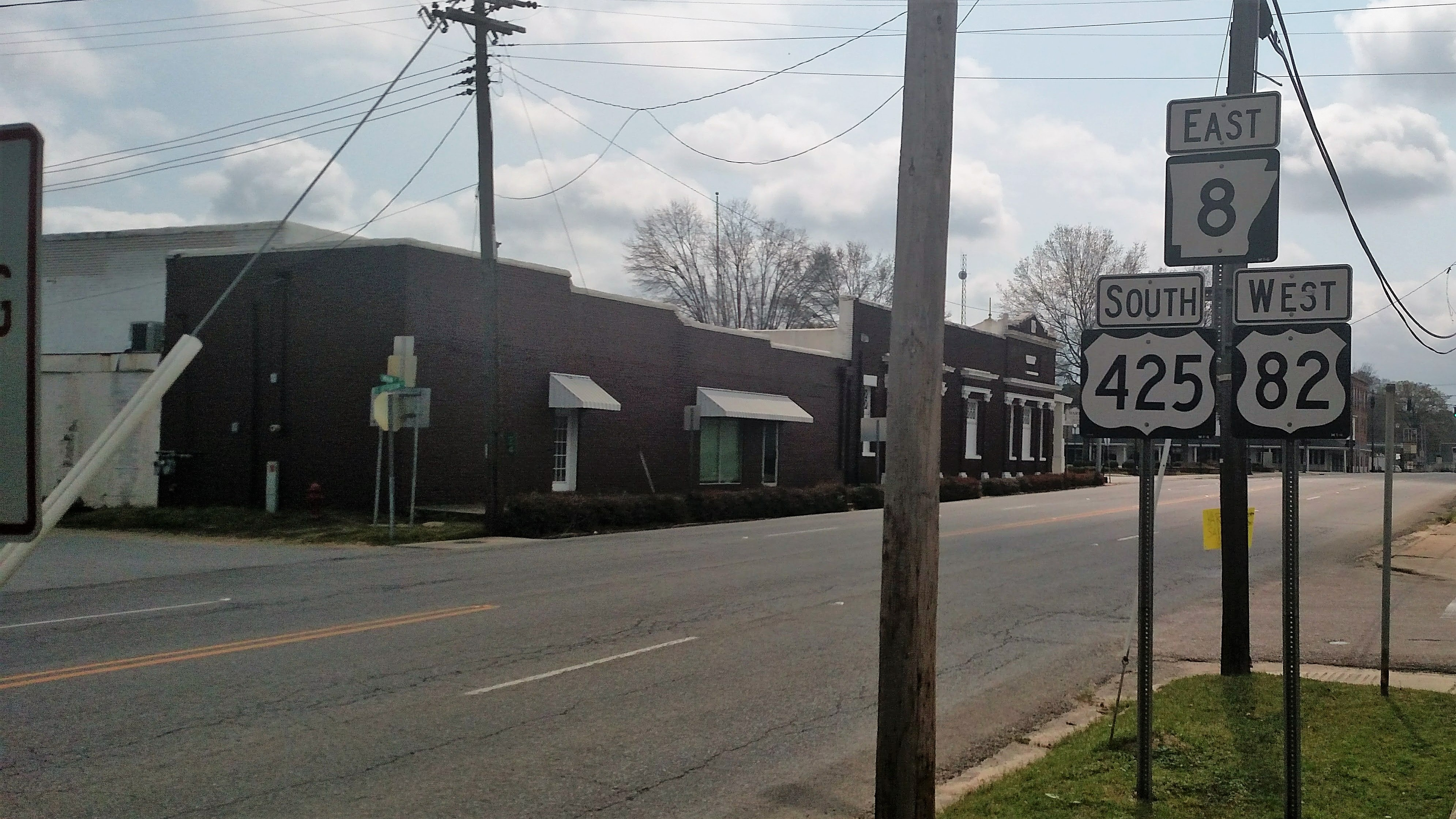 US 421, US 82, and Arkansas Highway 8 overlap briefly in Hamburg, AR